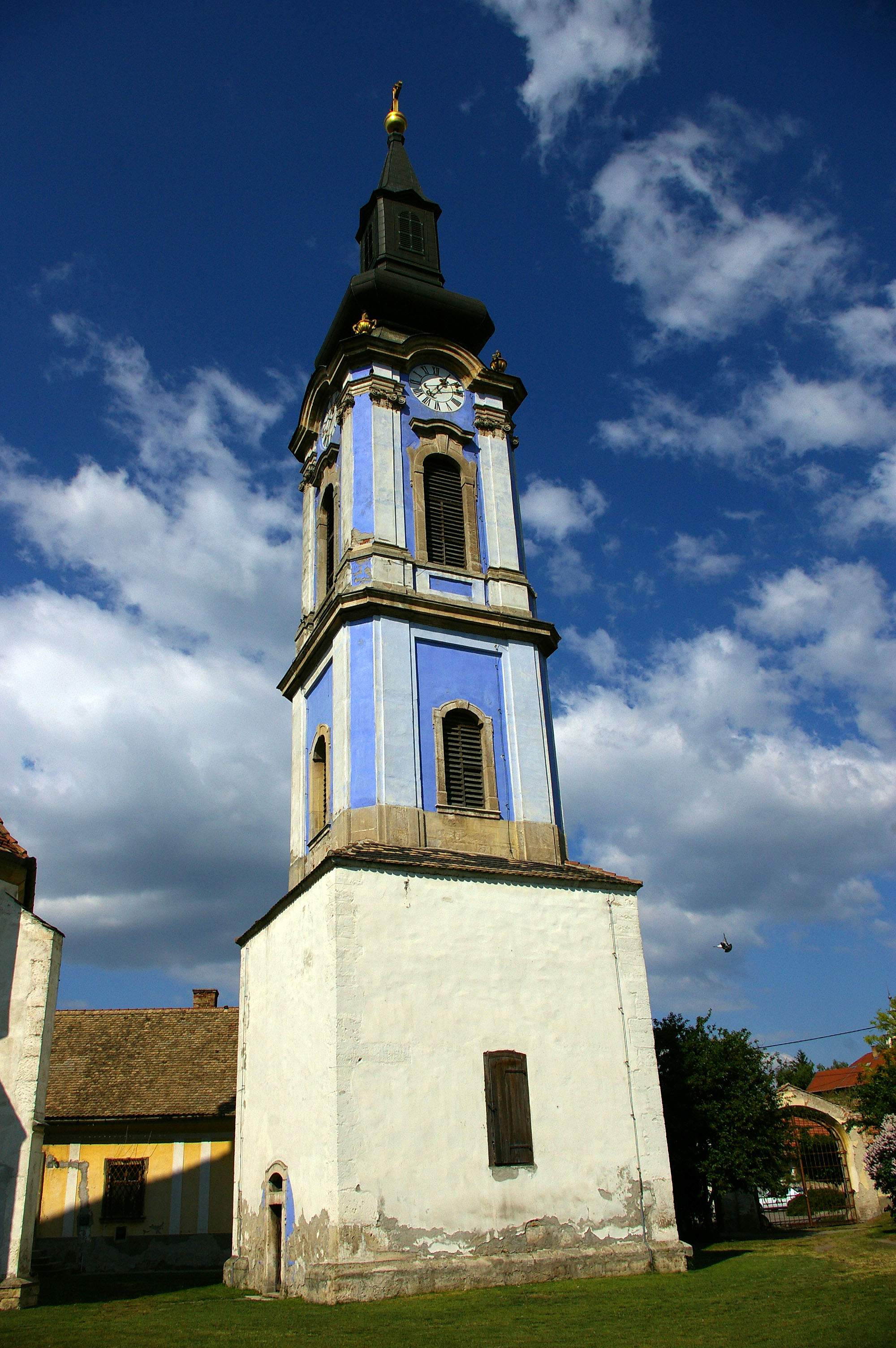 Tower, Serbian Church of Our Lady, Ráckeve, Hungary